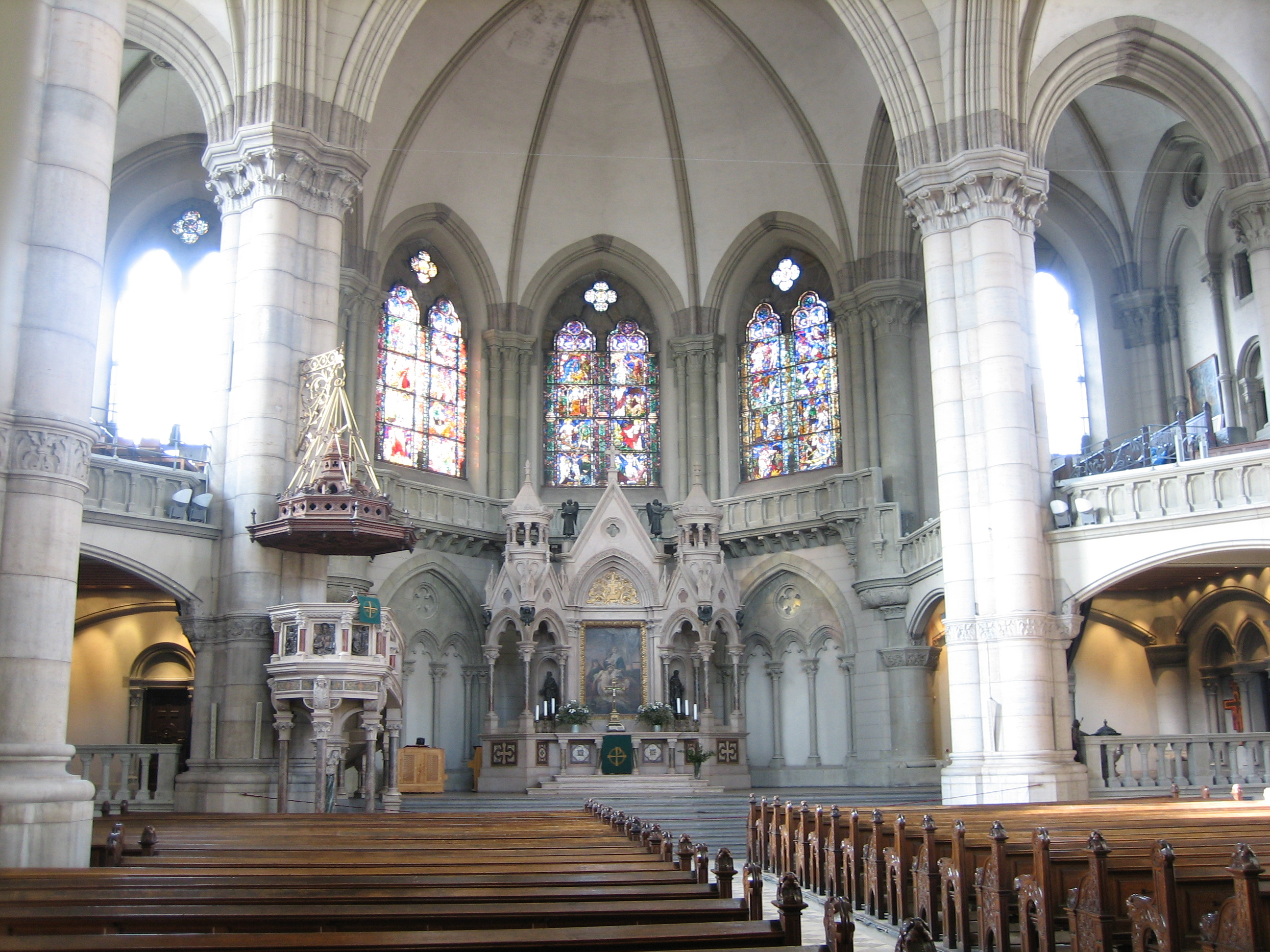 St. Lukas church in Munich, Germany